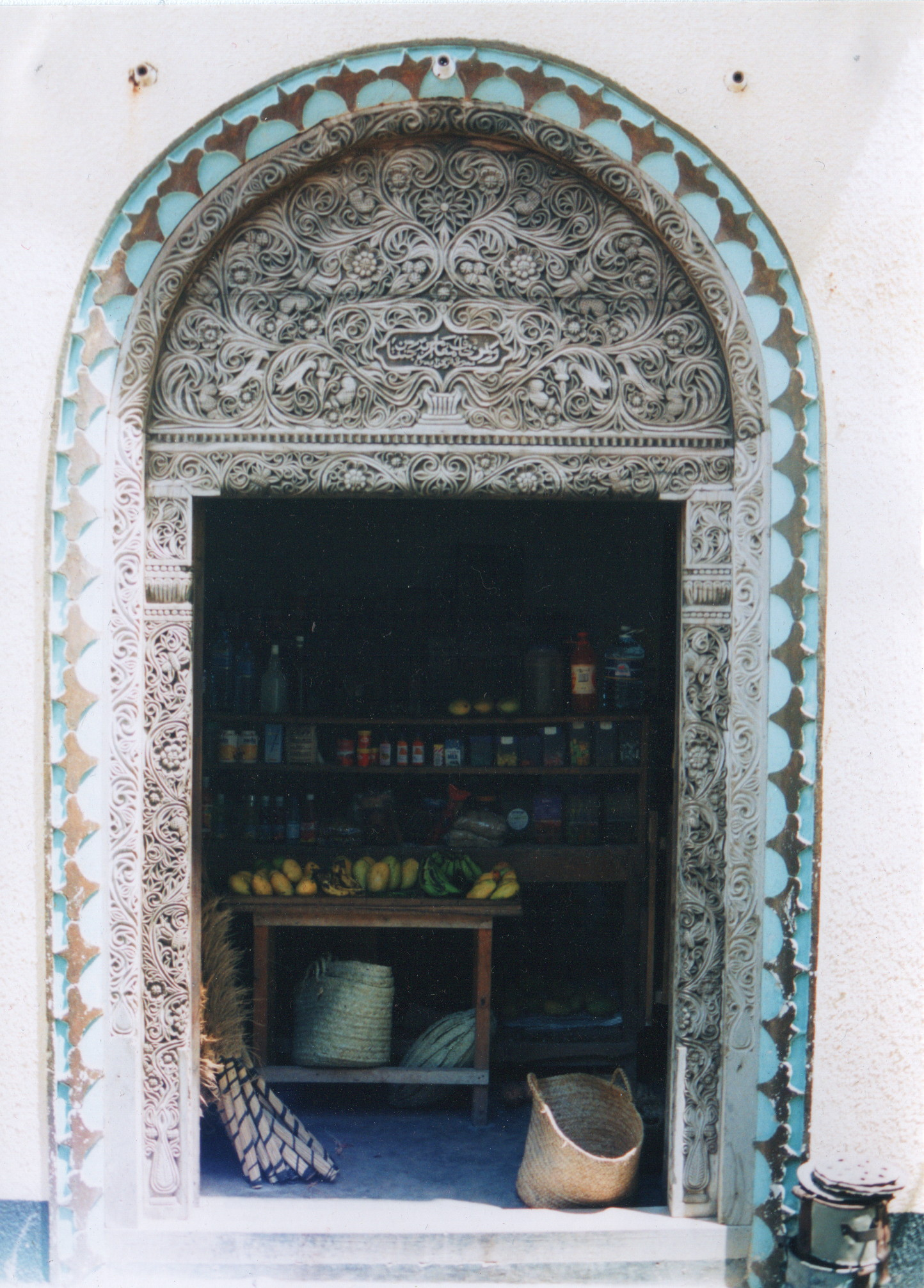 Carved wooden door (open) at Lamu in Kenya. These traditional Swahili doors are seen on many older buildings in Lamu.